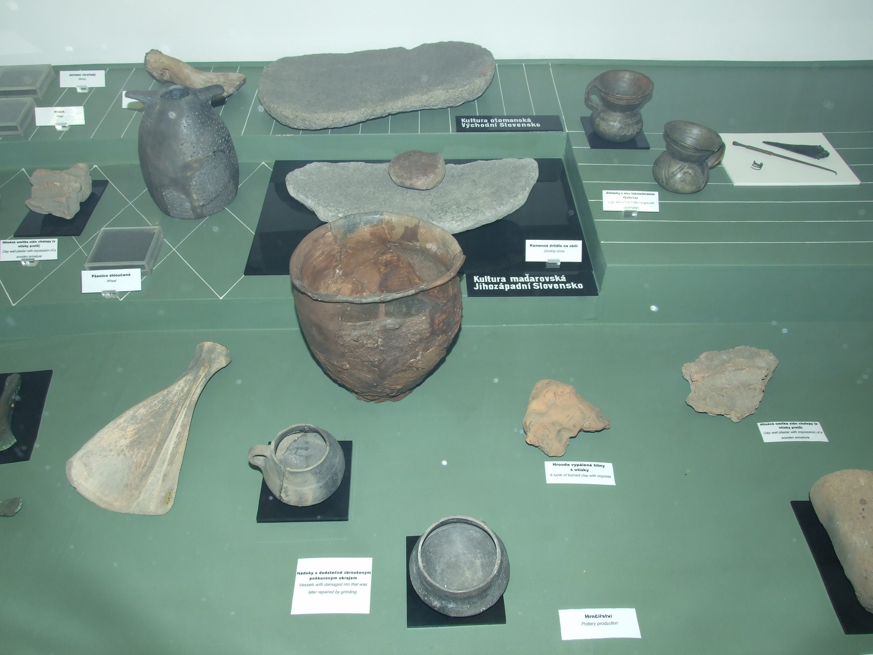 Prehistoric Times of Bohemia, Moravia and Slovakia, National Museum in Prague